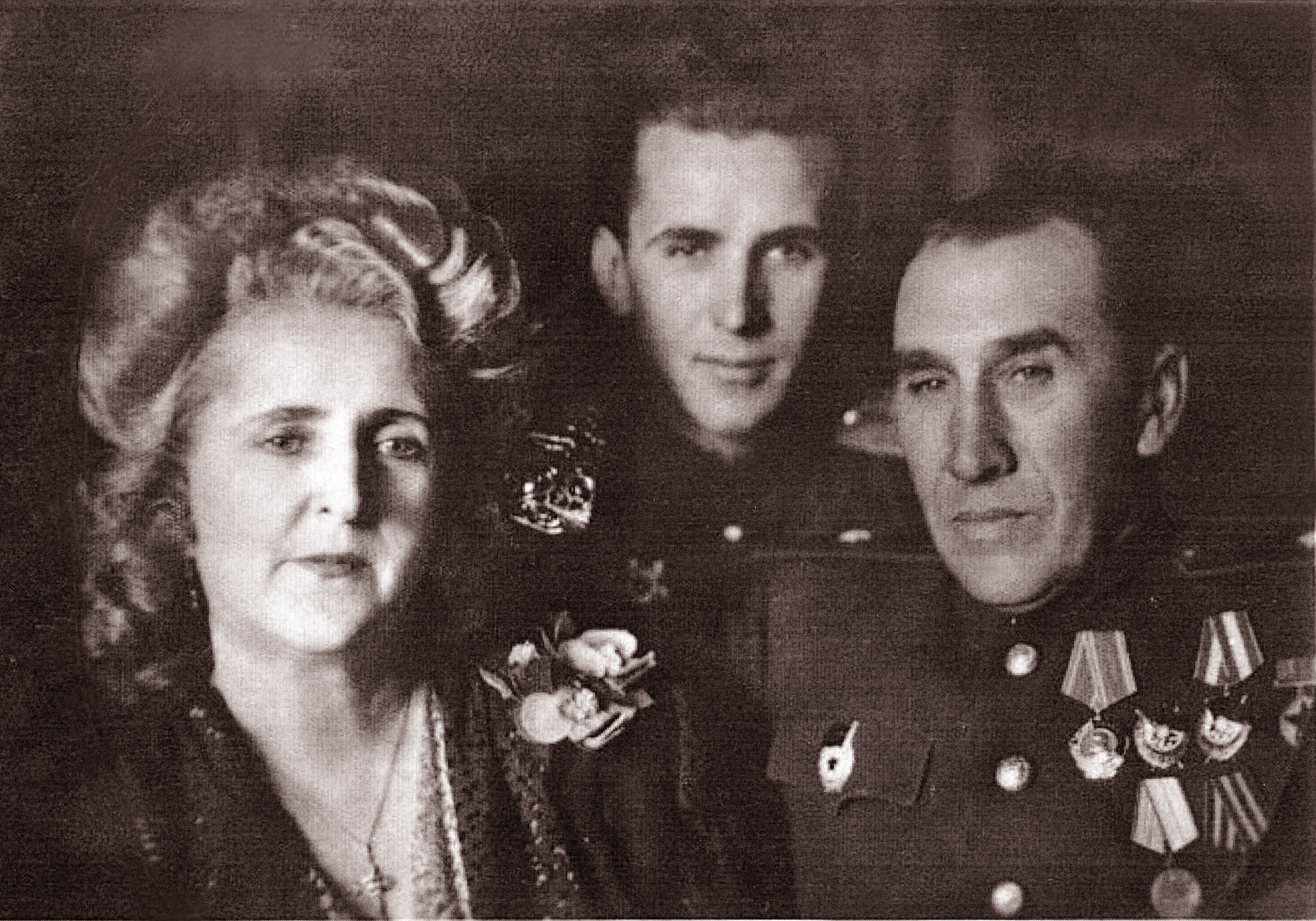 P.I. Voskresenskiy with his wife and son